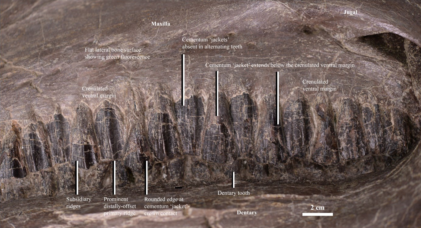 A cementum ‘jacket’ toot 321 h morphology is also present in the basal hadrosauriform Equijubus normani (IVPP 12534, You et al., 2003c: Fig. 1E), but unlike IVPP V22529 this is observed in alternating teeth rather than on each tooth.